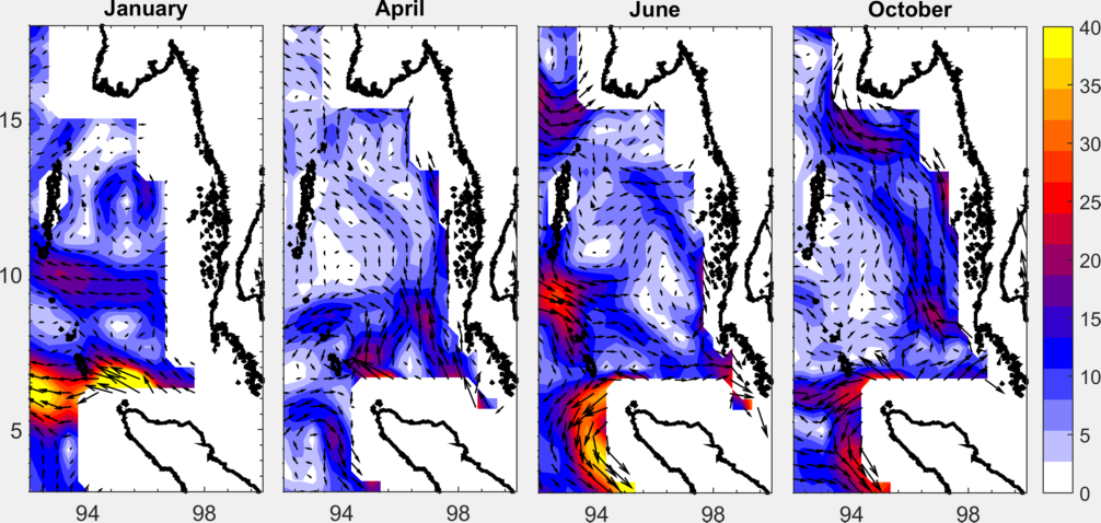 From “General Circulation and Principal Wave modes in Andaman Sea from Observations”